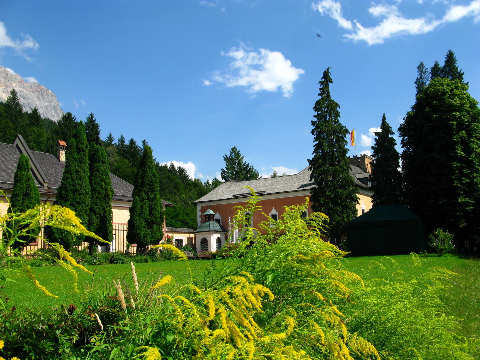 Wasserleonburg castle near Nötsch im Gailtal in the south of Carinthia in Austria / EU. Left to it its farm building